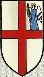 Flag of the Despotate of Arta made after " HERALDIKA SHQIPTARE", Gjin Varfi, 2000, ISBN 99927-31-85-0